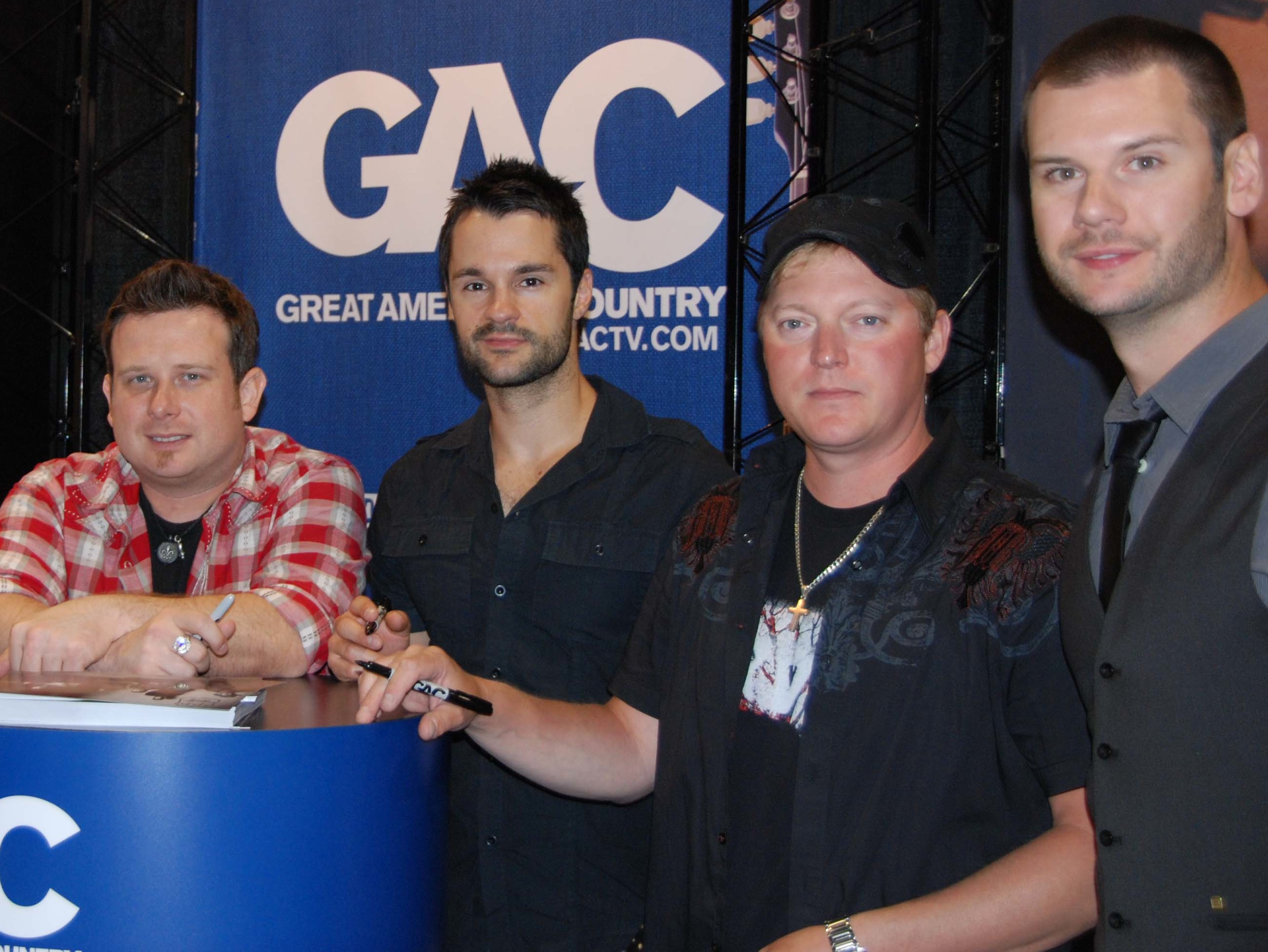 Picture of country music band Emerson Drive in 2010